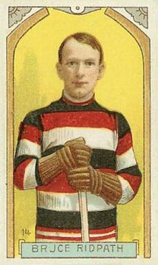 Hockey player Bruce Ridpath of the Ottawa Senators on a 1911 Imperial Tobacco hockey card.